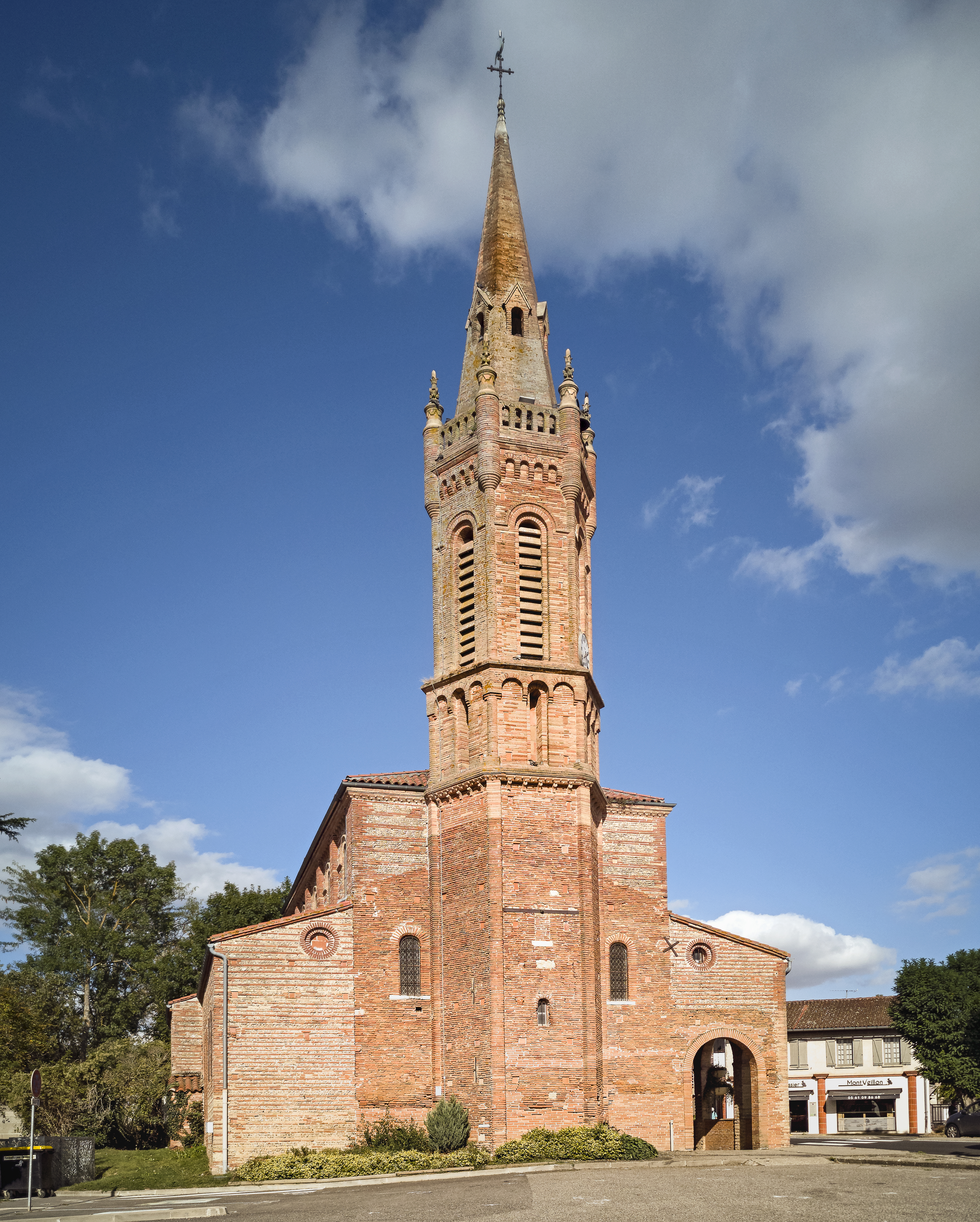 Church St. Martin, Montberon, Haute-Garonne, France